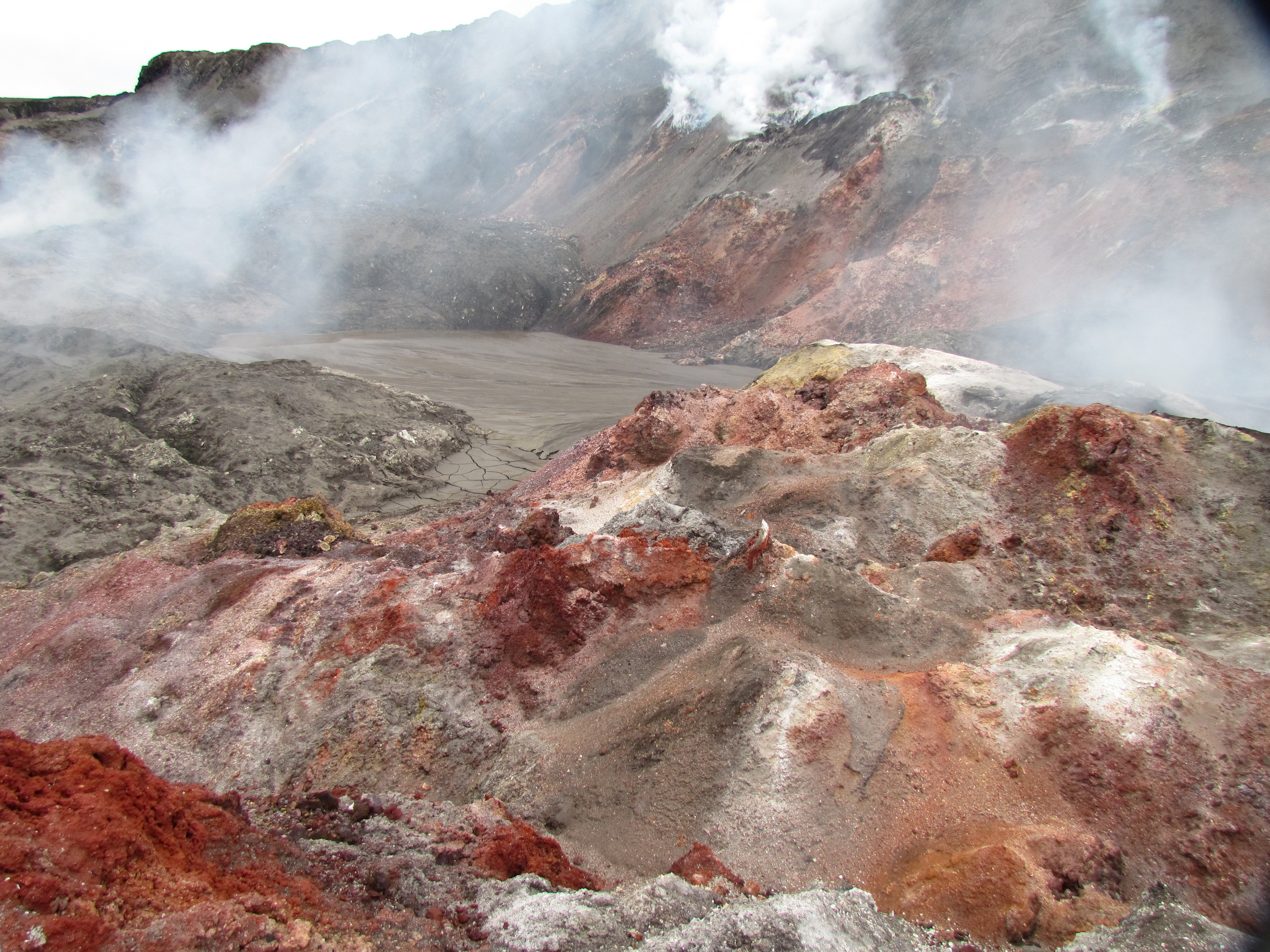 Clouds of smoke from burning sulfur-rich lignite deposits in Canada's Northwest Territories. The continuous erosion in the area exposes multi-coloured mineral-rich deposits